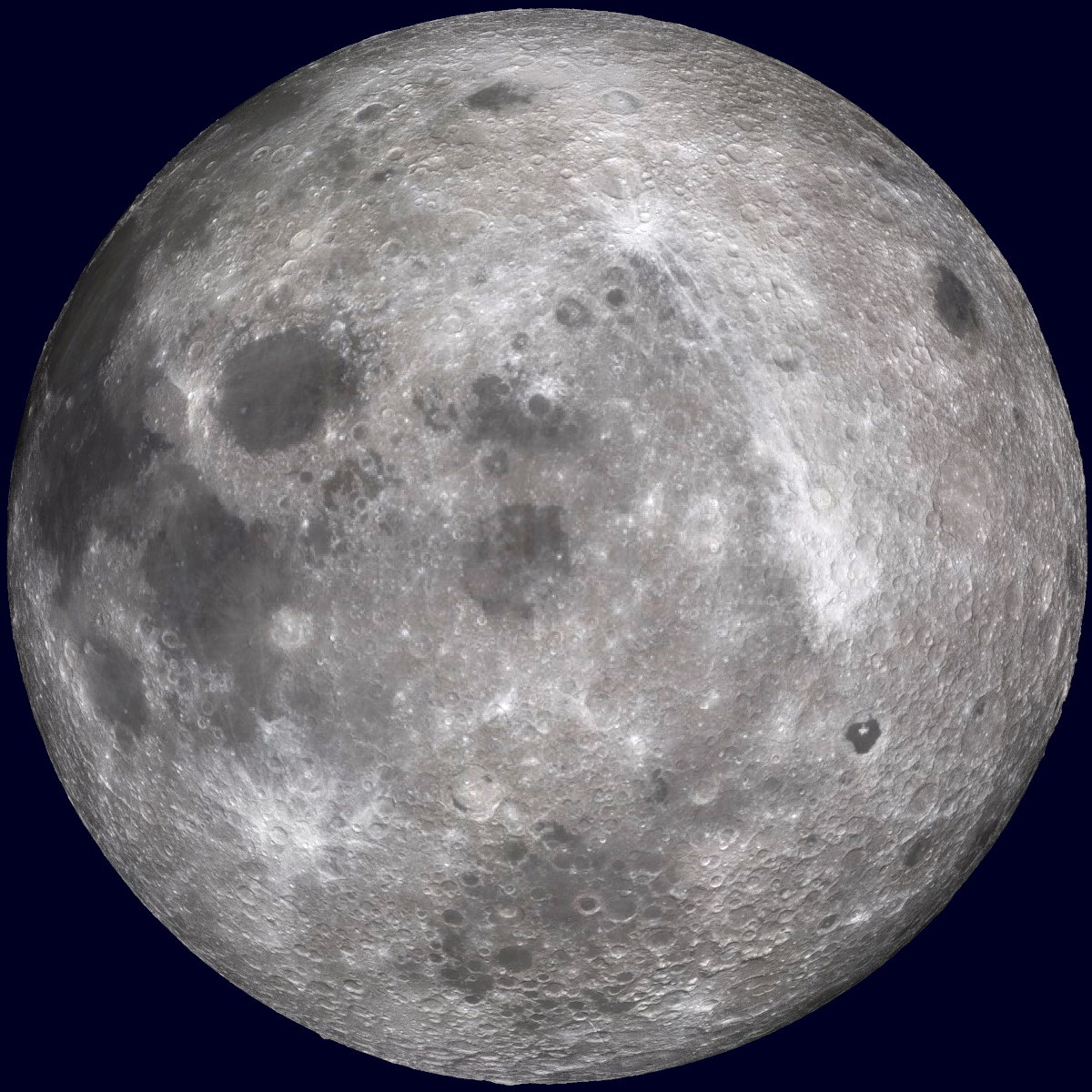 Near side lunar phase image set rendered by Jay Tanner - 2014. Size : 1200x1200 pixels Format : JPEG Author : Jay Tanner - 2014 License : These images are released under the provisions of the Creative Commons Attribution-ShareAlike 3.0 license. The image set consists of 361 images of the geocentric moon with 3D relief at 1-degree intervals of phase measured positively counterclockwise around the sky, eastward, from 0 to 360 degrees. Phase Orientation Legend: New = 0 degrees First Quarter = 90 Full = 180 Last Quarter = 270 New = 360